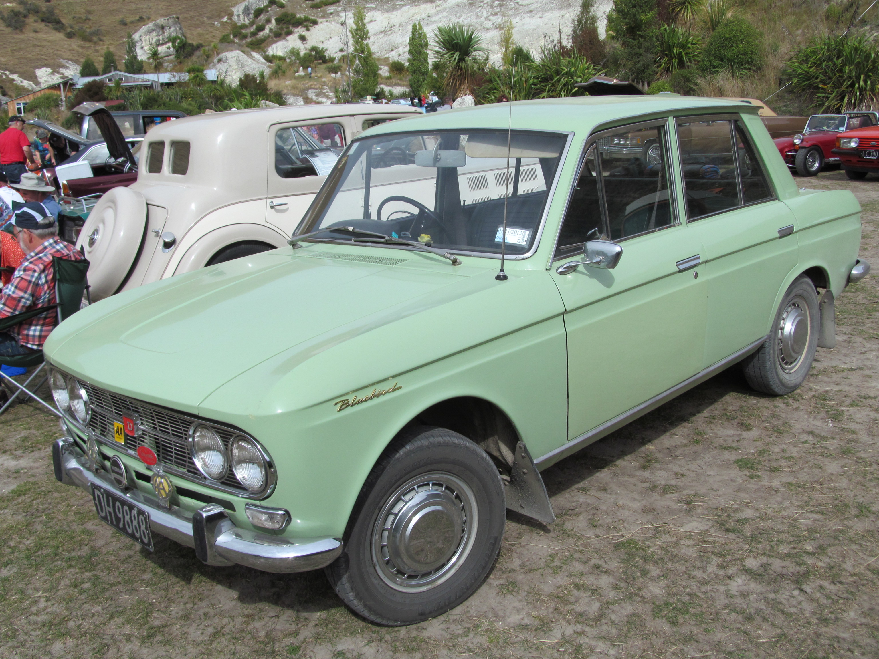 DH9888 The answer to the mystery interior from last night! It's hard to believe this neat little Japanese saloon is nearly 50 years old and carries the name of a model that can still be seen today, on the JDM Bluebird Sylphy saloon. This was lovely in a mint green, and I believe it was sold new by Cockram Motors in Christchurch.